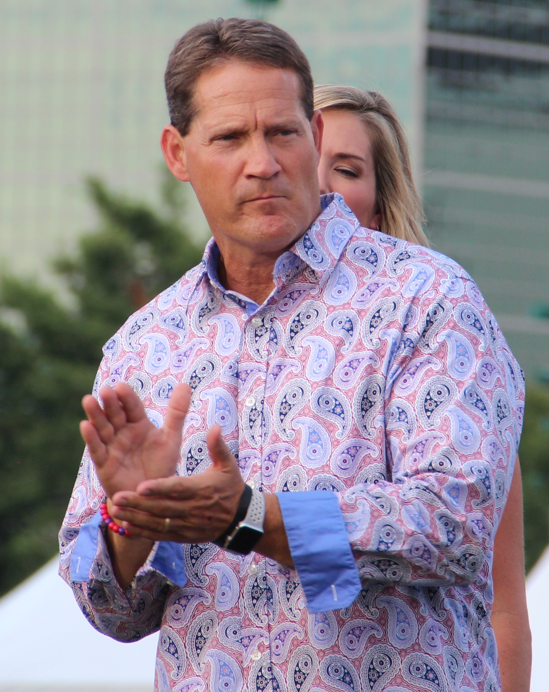 Gene Chizik at the 2018 SEC Summerfest